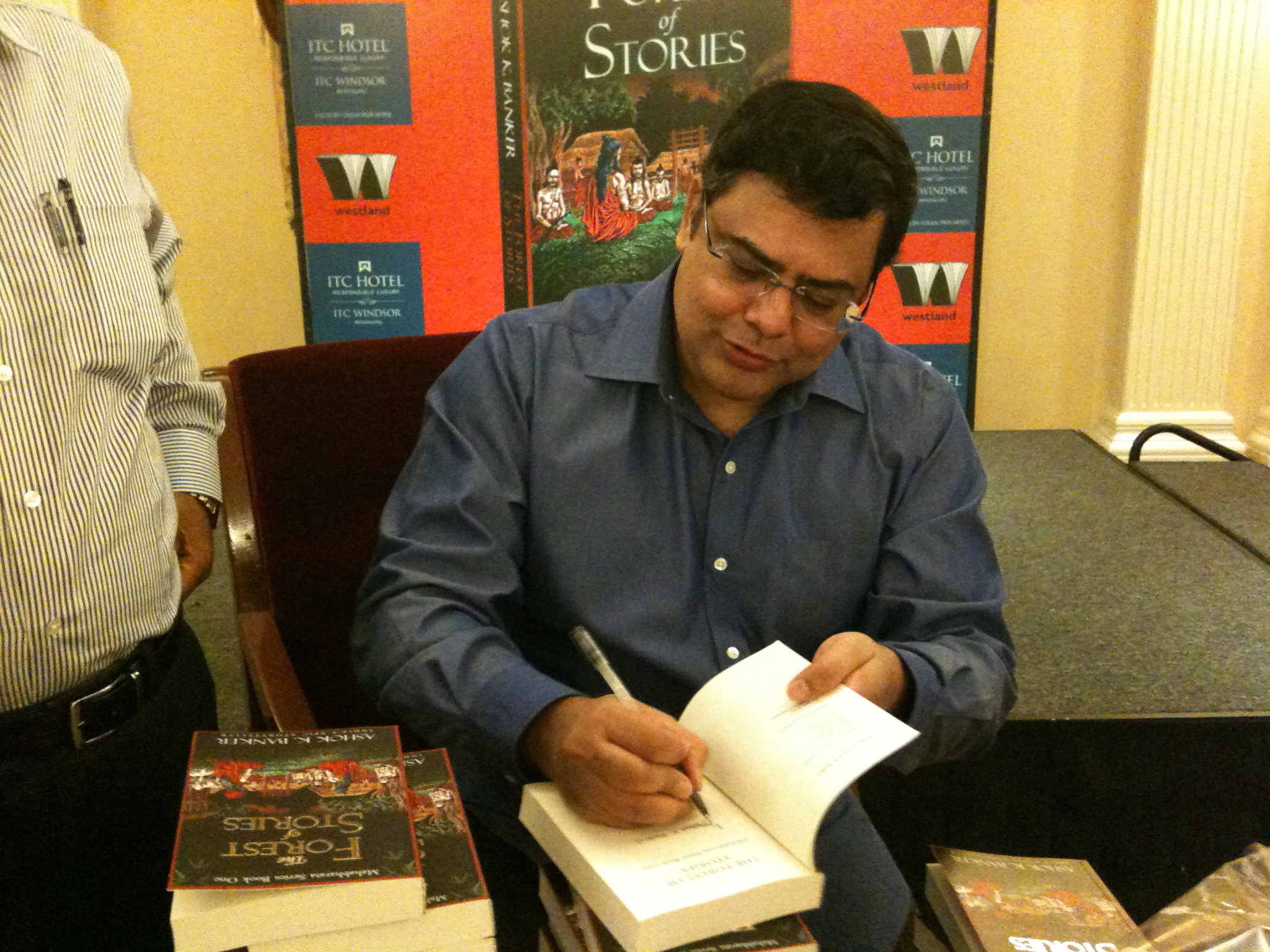 Signing copies at the Bangalore launch of The Forest of Stories, Book One of Mahabharata Series